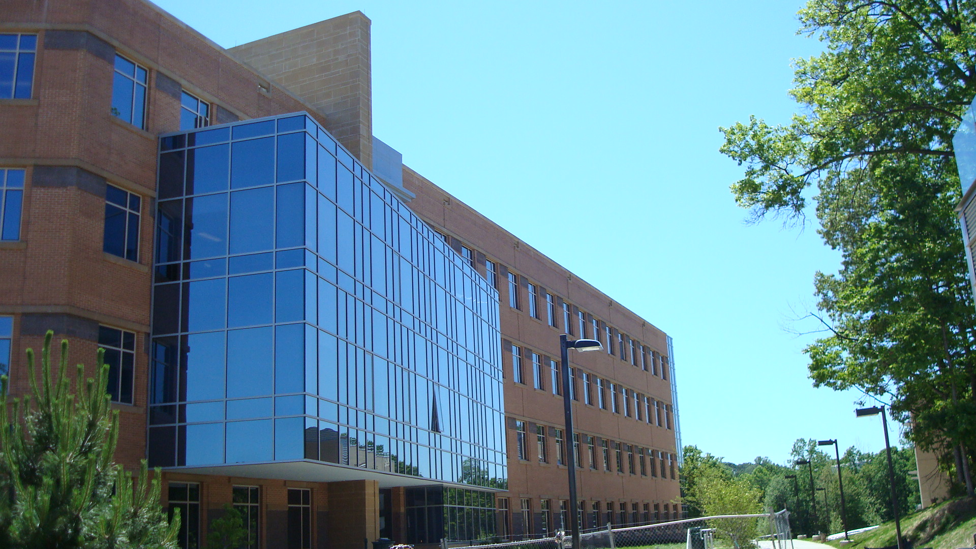 Picture of George Mason Science and Technology Building - Academic VI